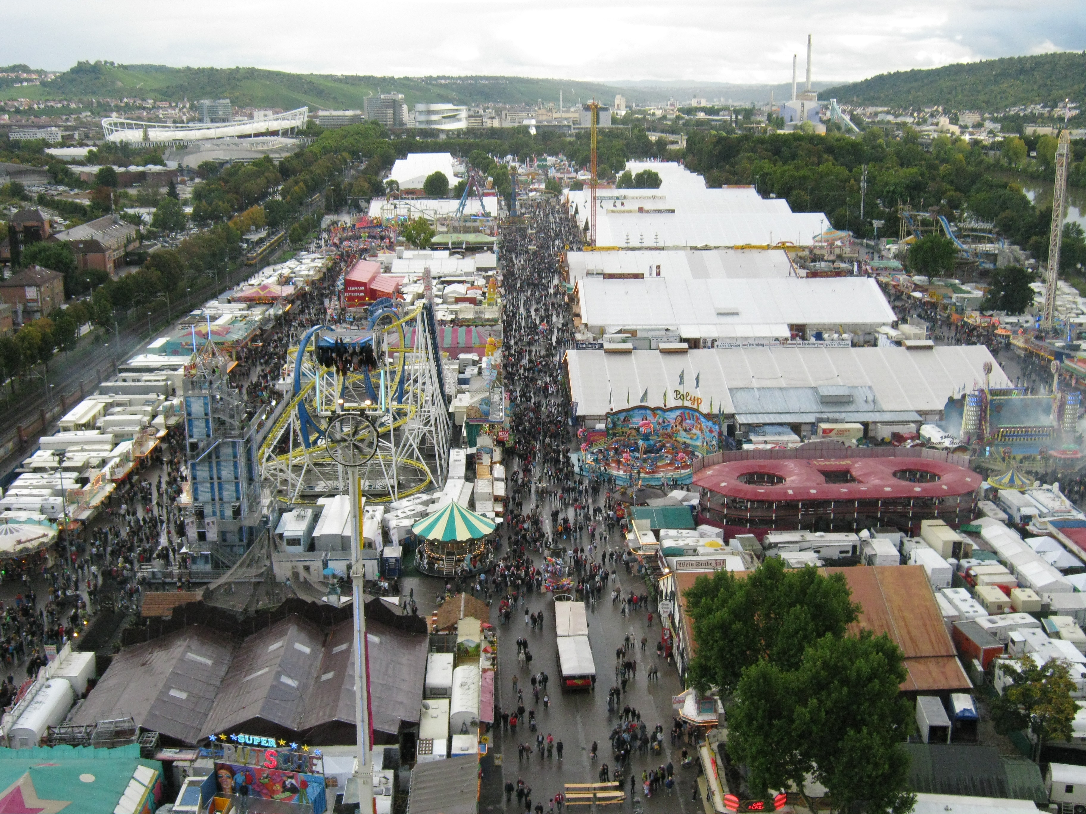 Cannstatt Funfair 2010 photographed from Ferris Wheel